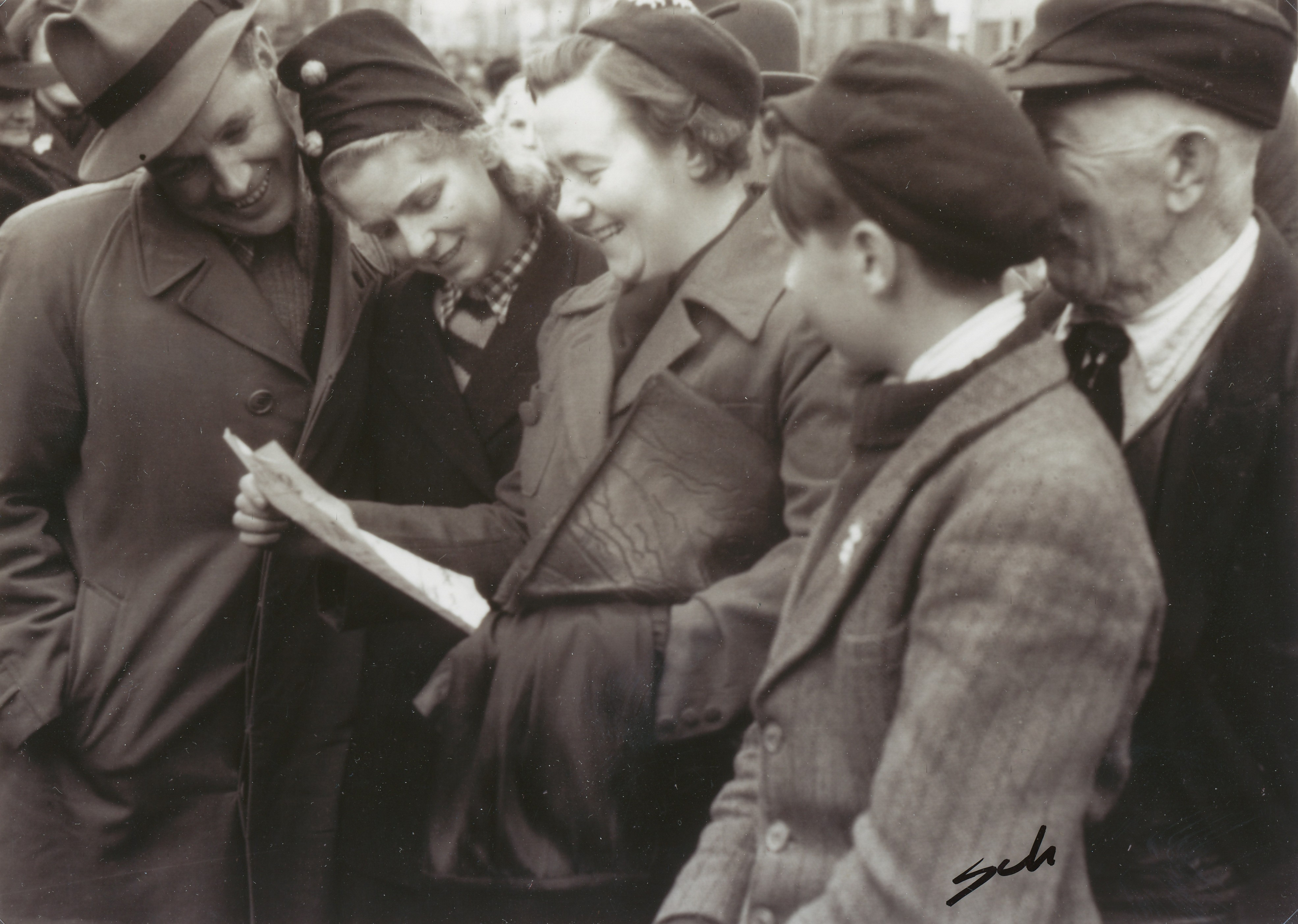 Format: Fotopositiv Dato / Date: 8 Mai 1945 Fotograf / Photographer: Schrøder Sted / Place: Nordre gate, Trondheim Eier / Owner Institution: Trondheim byarkiv, The Municipal Archives of Trondheim Arkivreferanse / Archive reference: Tor.H41.B46.F3341 Merknad: Glede over fredsbuskapet på de første løpesedlene.